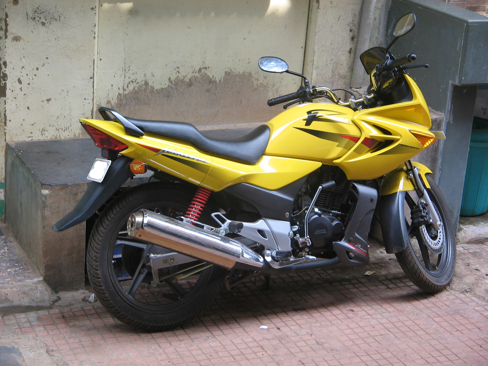 Hero Honda Karizma R